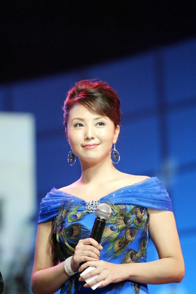 I took this when she was hosting "Beijing Influence Awards", so I own the copyright of this photo